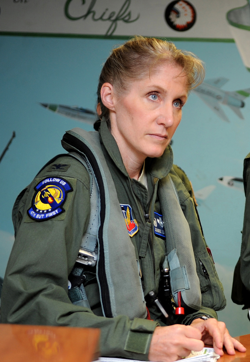 Col. Jeannie Leavitt at Seymour Johnson Air Force Base, N.C. Leavitt, the first female fighter pilot, now commands the 4th Fighter Wing at Seymour Johnson.